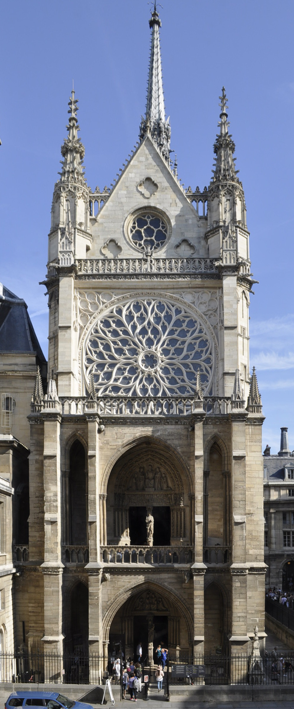 Western facade of the Sainte-Chapelle in Paris in France, photographed from the first floor of the Courthouse.